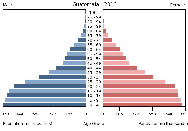 The population pyramid of Guatemala illustrates the age and sex structure of population and may provide insights about political and social stability, as well as economic development. The population is distributed along the horizontal axis, with males shown on the left and females on the right. The male and female populations are broken down into 5-year age groups represented as horizontal bars along the vertical axis, with the youngest age groups at the bottom and the oldest at the top. The shape of the population pyramid gradually evolves over time based on fertility, mortality, and international migration trends.